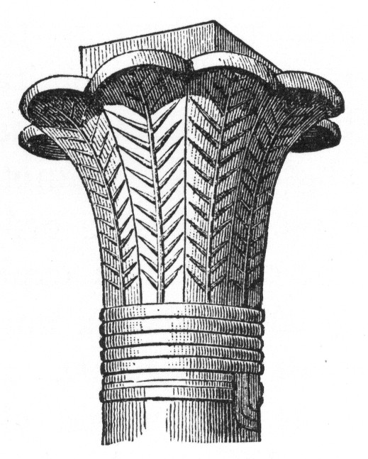 See the "List of illustrations" images (4 pages) in this book's category. The images are numbered in the order they appear in the book.